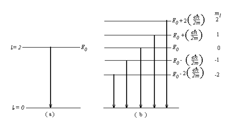 Transições campo magnético